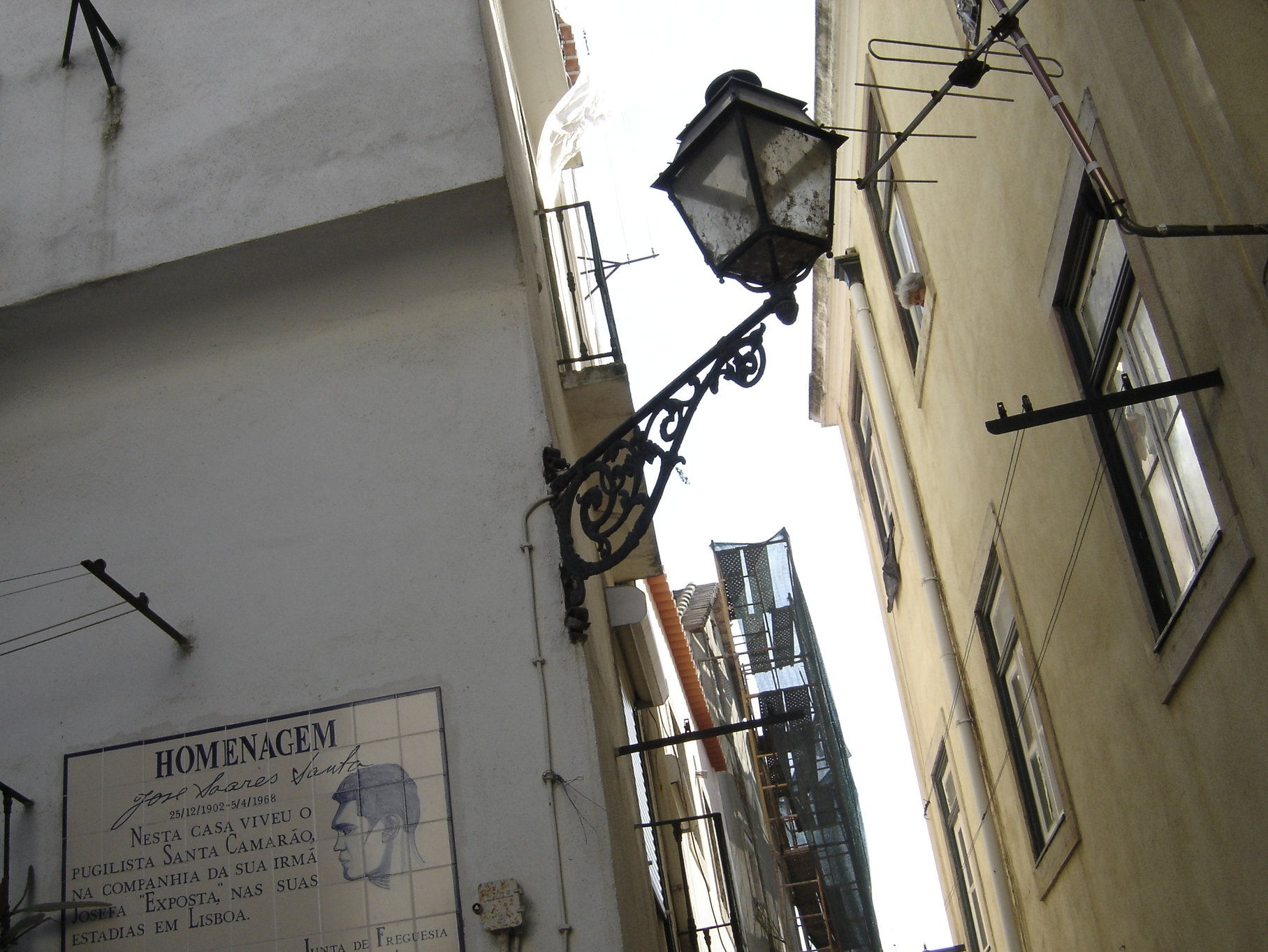 Alfama, Lisboa